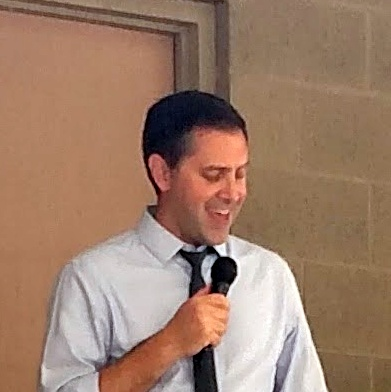 Greg addresses a rally of the Washington County Democrats at Shiloh Square in Springdale, Arkansas